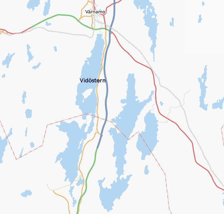 Map of lake Vidöstern in Småland, Sweden generated from OpenStreetMap (osmarender) 2008-06-03, and manually edited in Gimp adding lake name